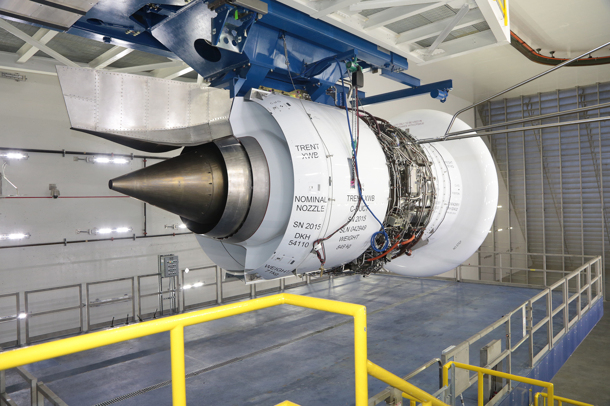 Delta Jet Engine Test Cell Facility